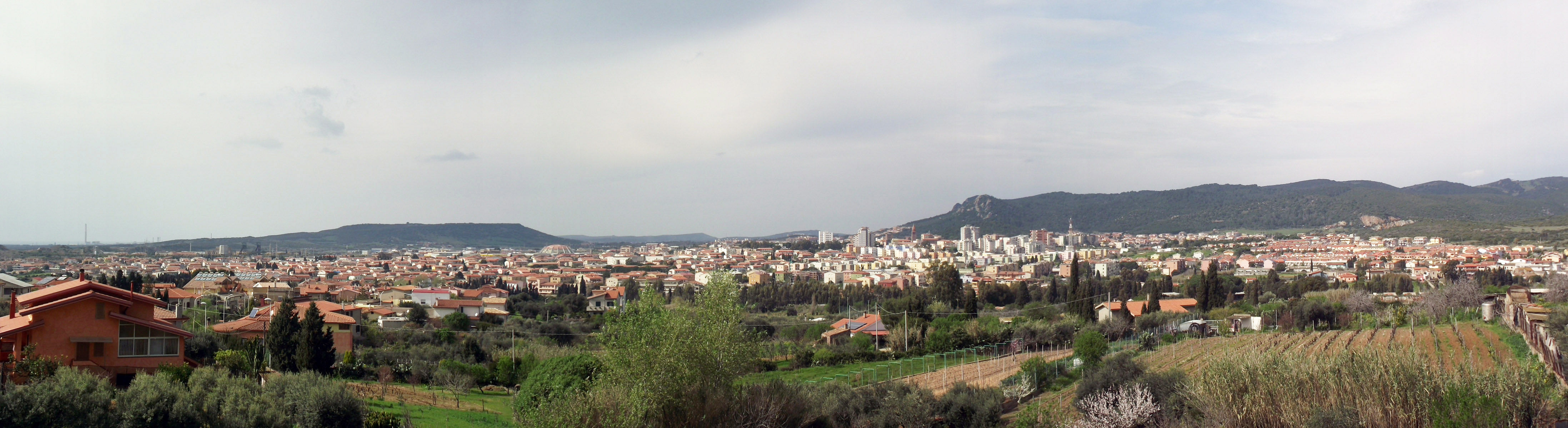 The city of Carbonia, Sardinia, Italy